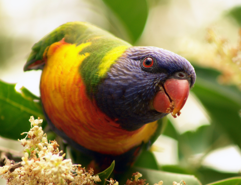 Rainbow Lorikeet Trichoglossus moluccanus (this subspecies is also known as Swainson's Lorikeet) in a tree in Sydney, Australia.